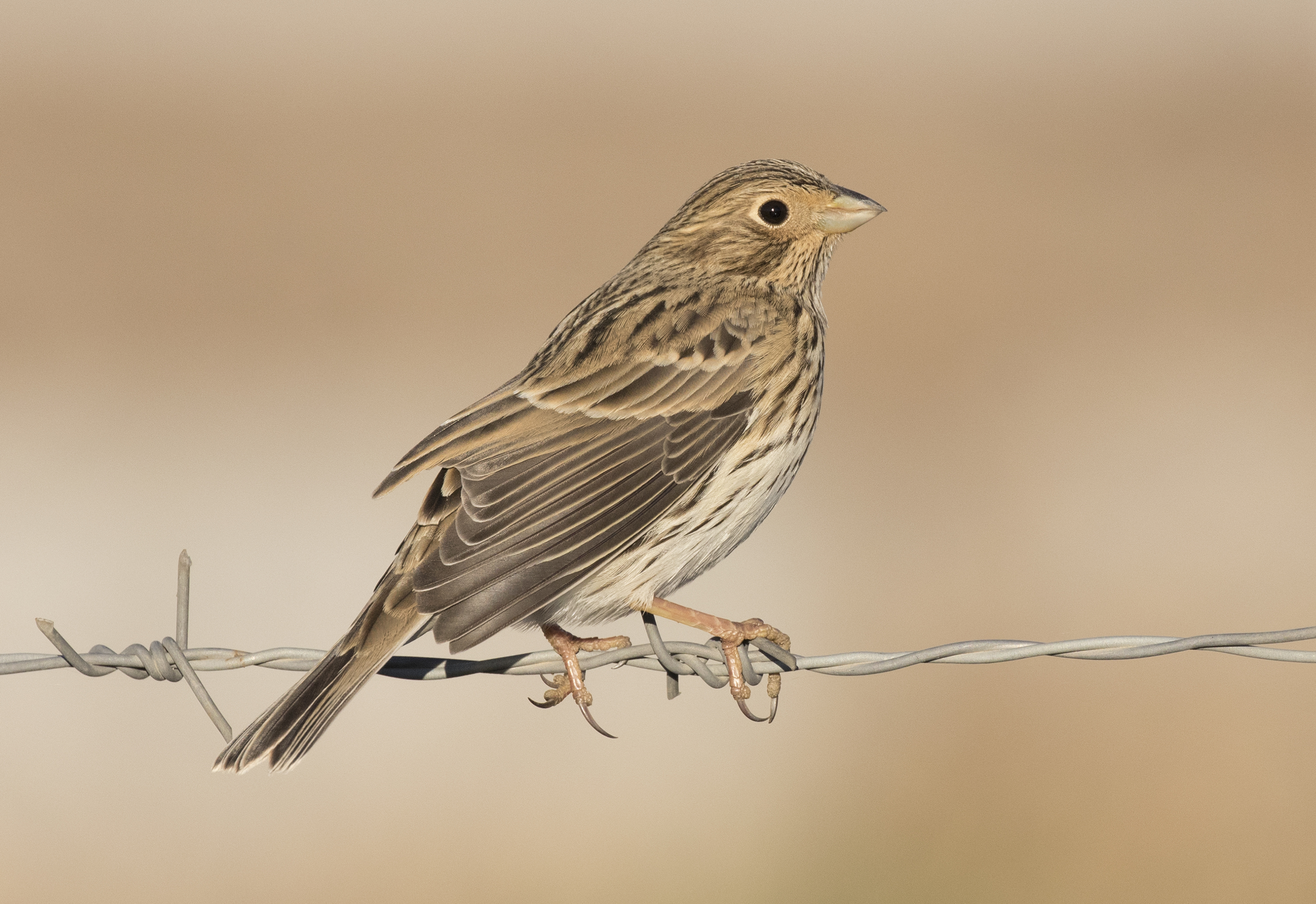 Corn Bunting (Emberiza calandra) in Afşar Village, Kahramanmaraş - Turkey.